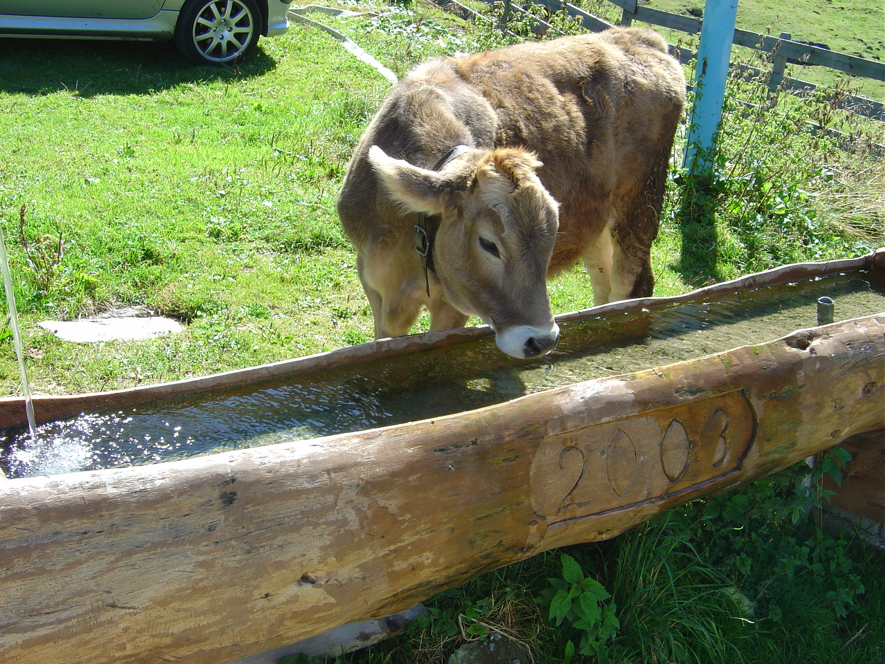 Kemater Alm (Austria) in September 2003. A cow drinks from a water trough.